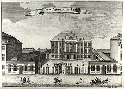 cobberplate engraving depicting tSchimmelmann Mansion in Copenhagen, Denmark, now the Odd Fellow Mansion